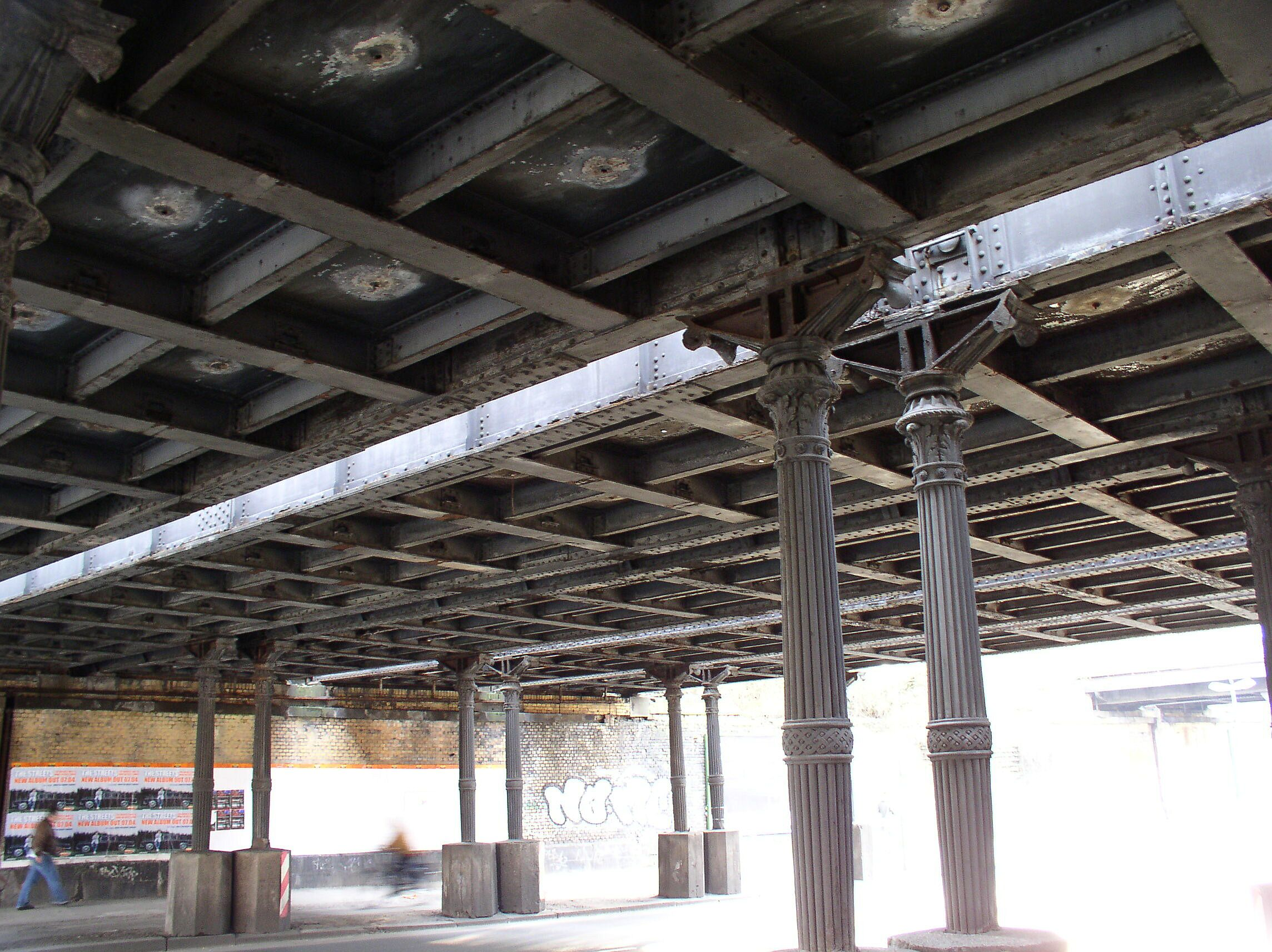 Yorckbrücken at the Yorckstraße in Berlin